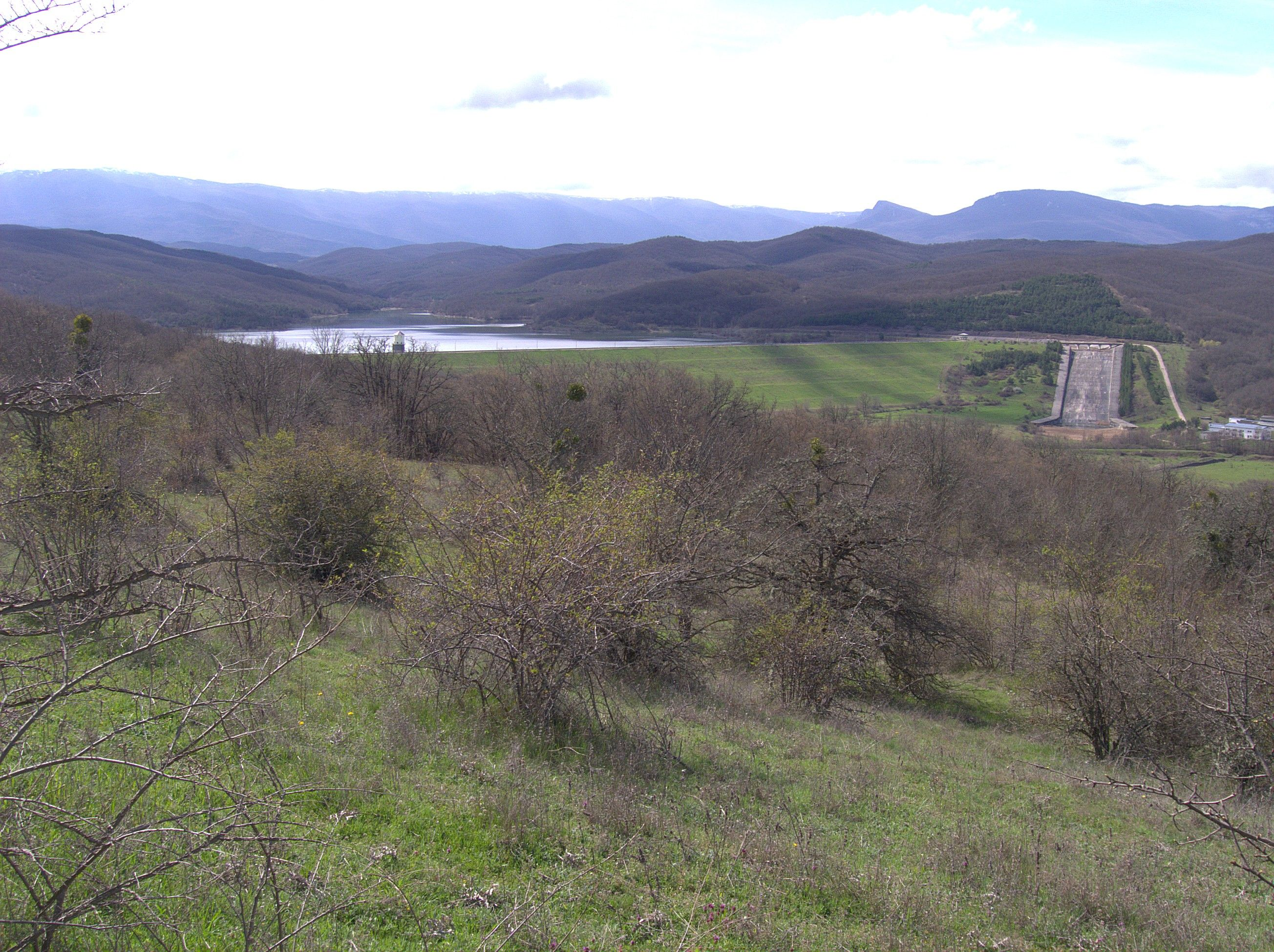 Zagorskoe reservoir Crimea.